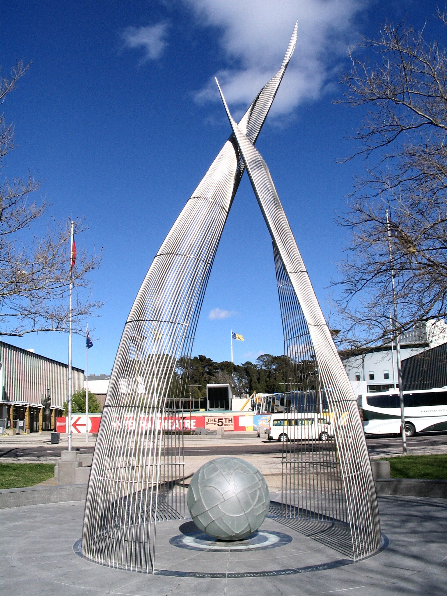 ACT Memorial, Canberra, Australia. London Circuit is just behind the memorial, with the Canberra Theatre and part of the ACT Legislative Assembly visible in the background. Photo taken by User:Rainmaker, 8 September 2006.